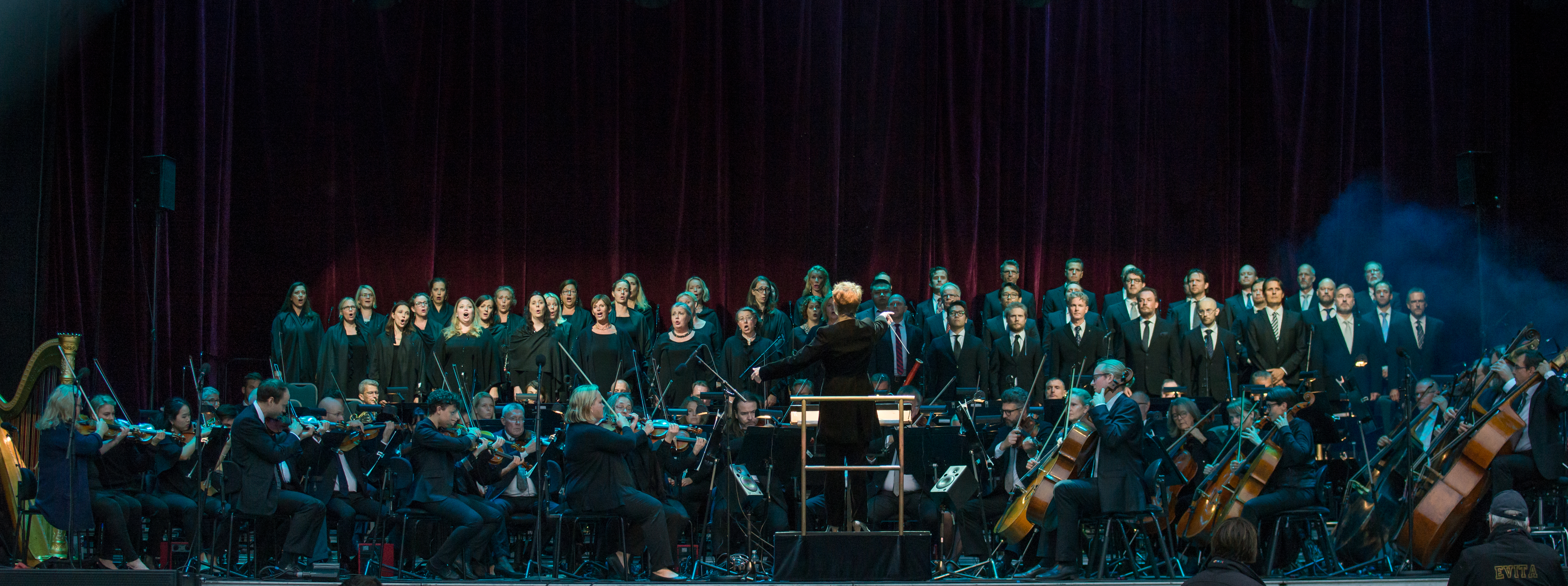 The Royal Hov Chapel and The Royal Opera Choir from the Stockholm Opera at Gustav Adolfs torg during Stockholm's cultural festival 2019.